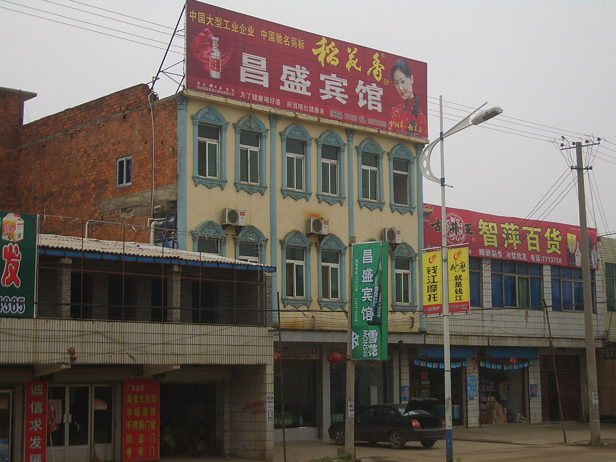 Changsheng Hotel (昌盛宾馆, Changshen Binguan) in the town of Futu, in Yangxin County, Hubei.